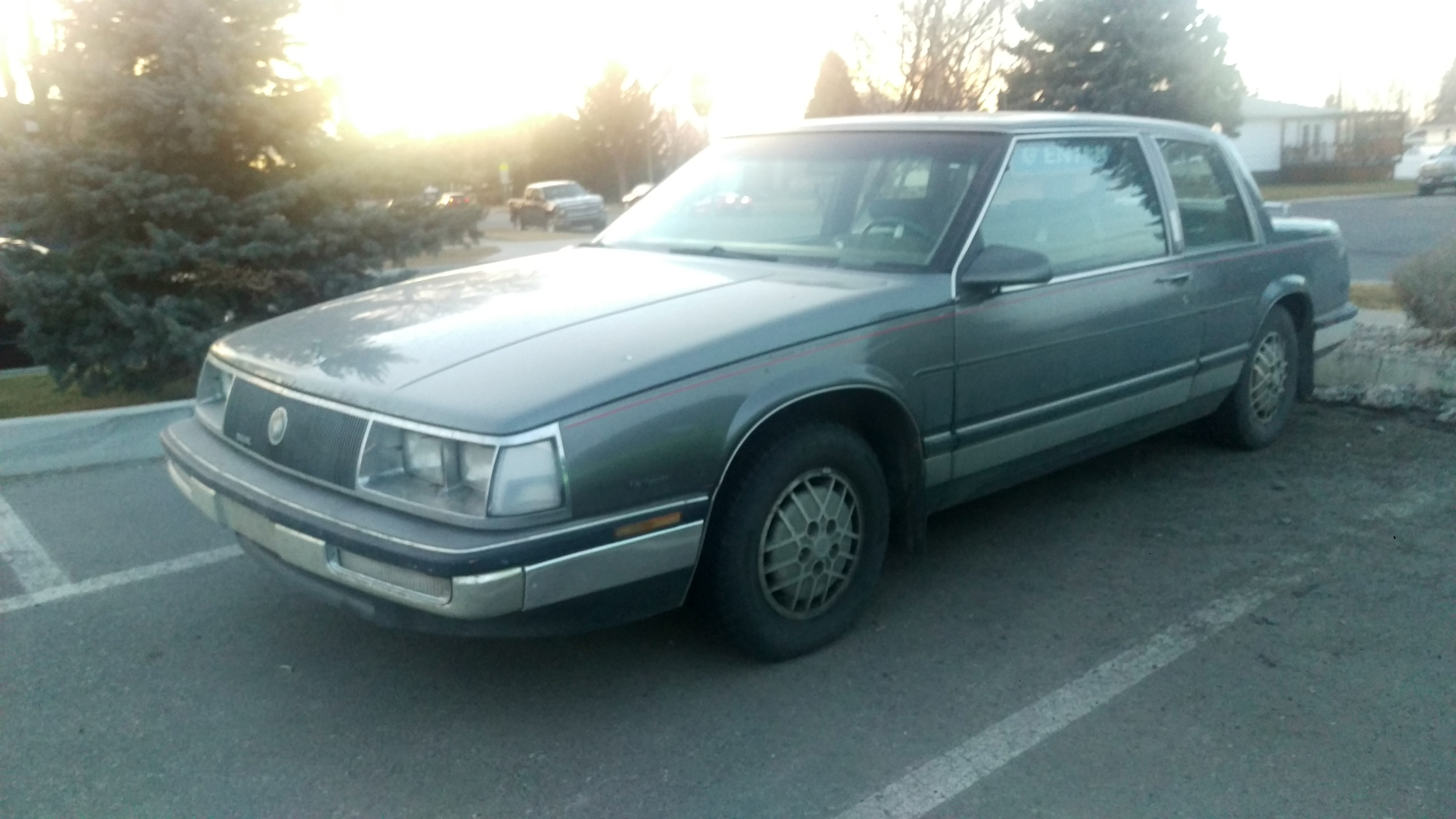 Buick Park Avenue in rarely seen two door form.